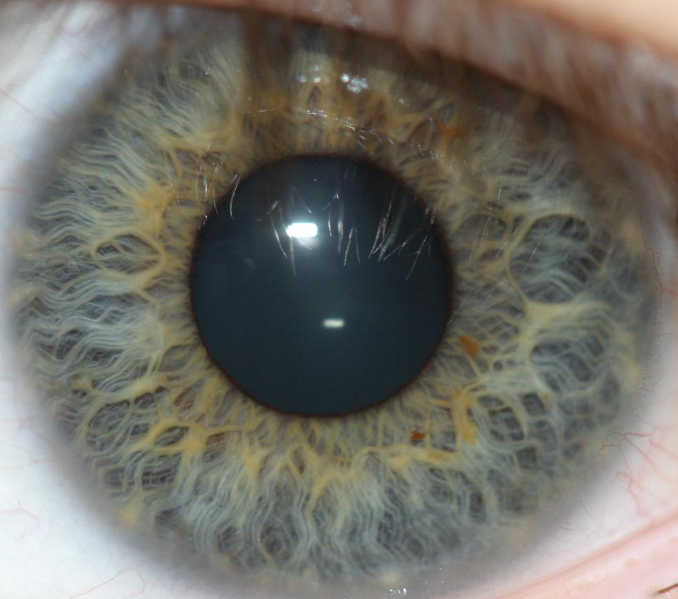 This is a visible wavelength iris image that captured by myself during my M.Sc. period in the university of Tehran, Iran.